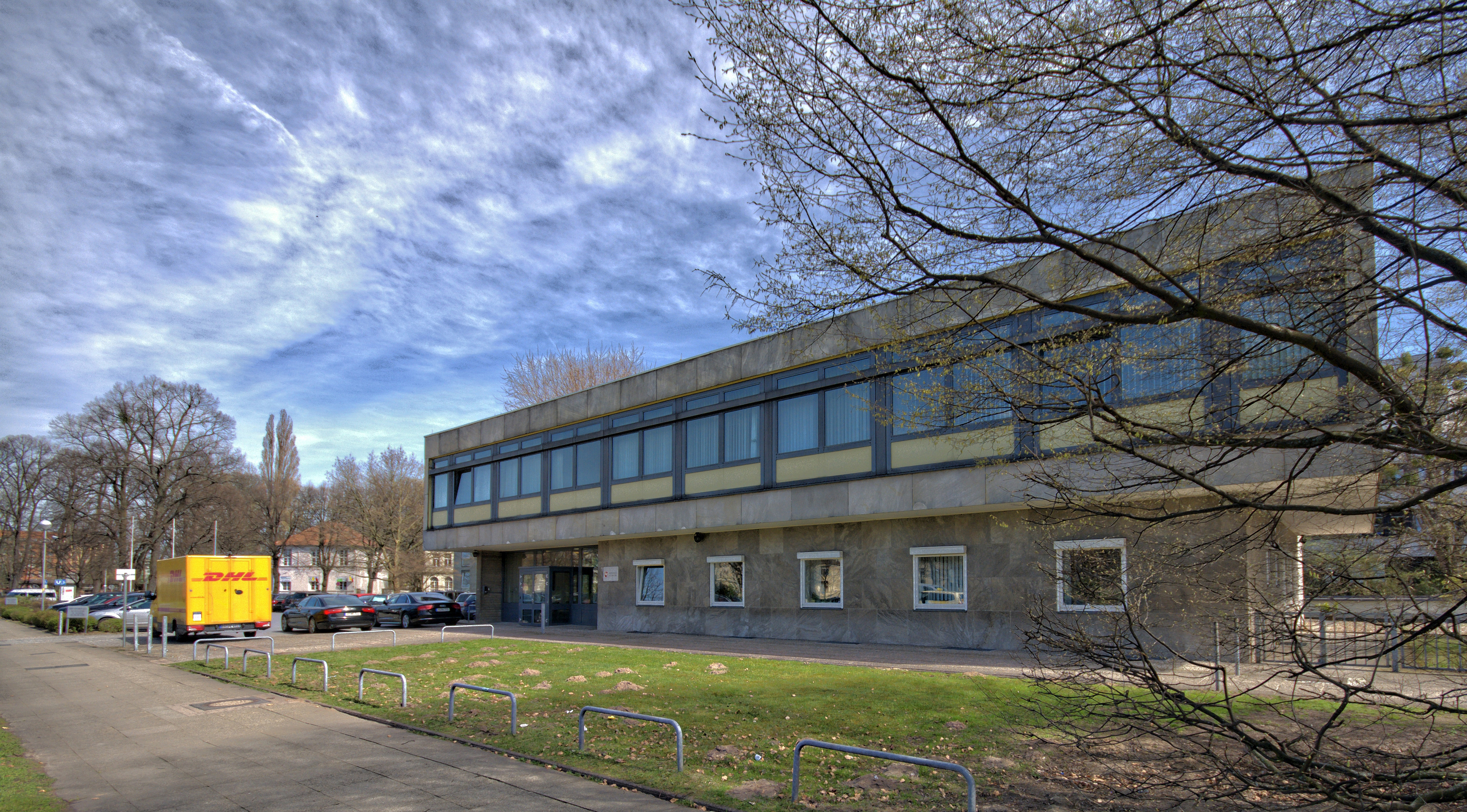 Wikipedia im Landtag – Niedersachsen 17. bis 18. April 2013 in Hannover Fragen zur Nachnutzung Wenn Sie Fragen zur Nachnutzung dieses Bildes haben, können Sie sich jederzeit gern an wenden Personality rights warning This work depicts one or more identifiable persons. The use of depictions of living or deceased persons may be restricted by laws regarding personality rights. The extent of these restrictions depends on jurisdiction. Personality rights restrictions apply independently of copyright. Before using this content, please ensure that the intended use does not infringe any personality rights under applicable laws. You are solely responsible for ensuring that you do not infringe someone else's personality rights. See our general disclaimer.